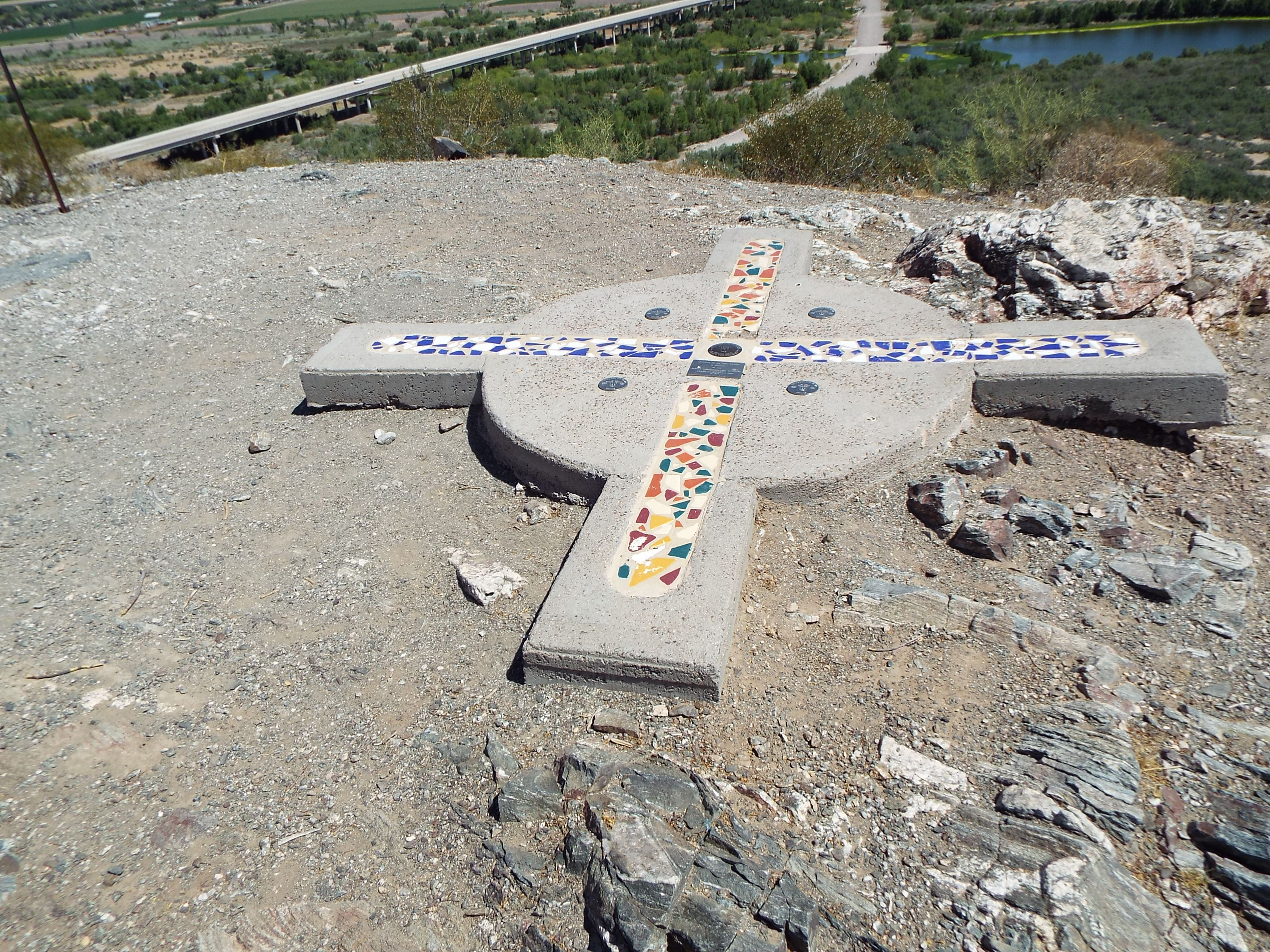 The initial point of the Gila and Salt River Meridan. Period of significance: 1850-1874.The surveying marker of the Gila and Salt River Meridan is located on Monument Mountain. Ever since 1851, this has been the center point used by the state to measure the land in Arizona. The federal government recognized this point for measuring the boundary between the United States and Mexico after the Mexican-American War ended. The first survey conducted in 1867, involved the first 36 miles of Arizona. Up until 1874, this was the epicenter of all surveying in Arizona for property deeds. Listed in the National Register of Historic Places on October 15, 2002, reference #02001137. The summit of Monument Hill is located at 115th Ave. and Baseline Road in Avondale, Az.Did You Know: Monument Hill Is An Important Arizona Spot